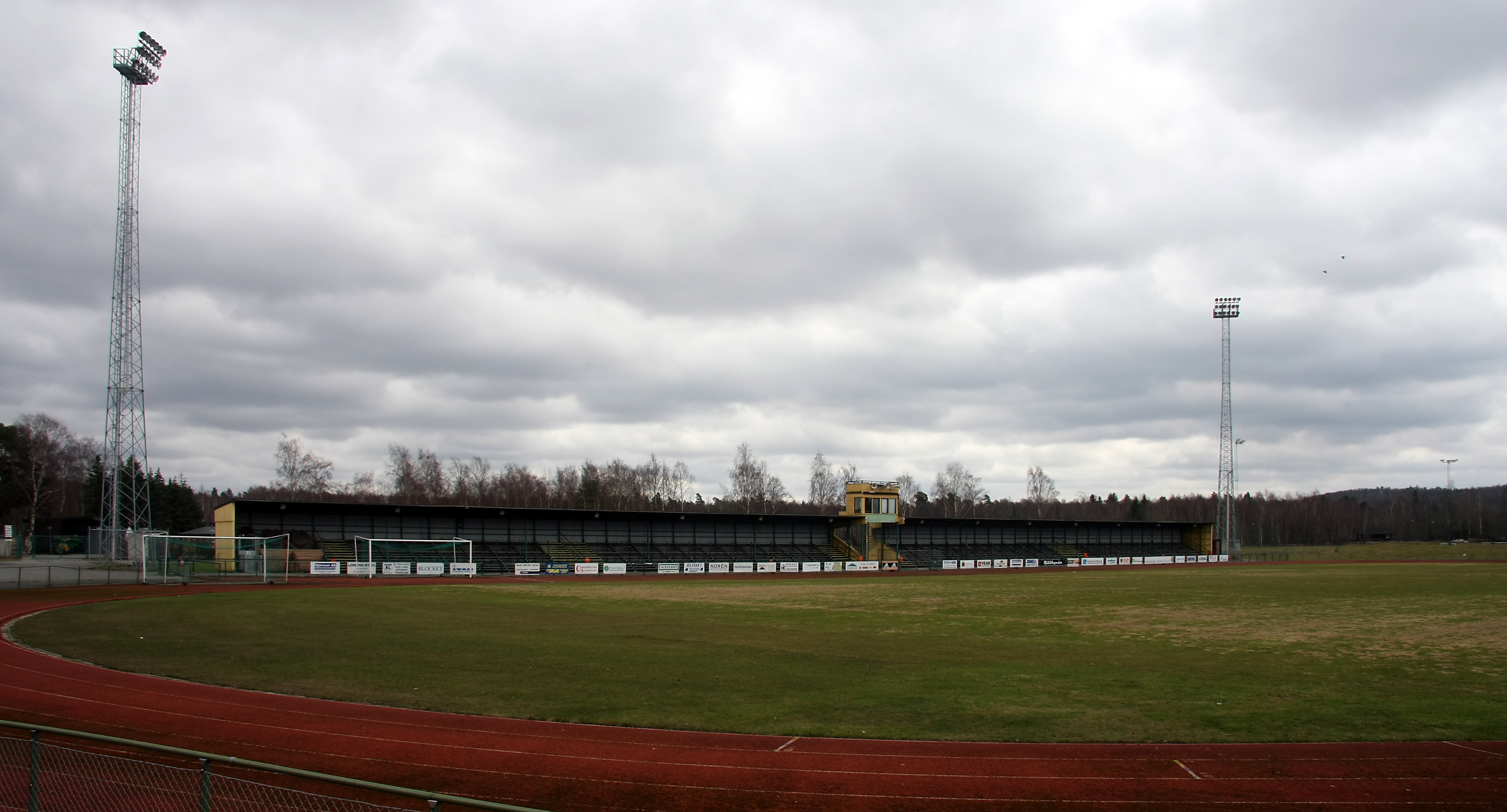 Österås IP sports facility in Hässleholm, Sweden